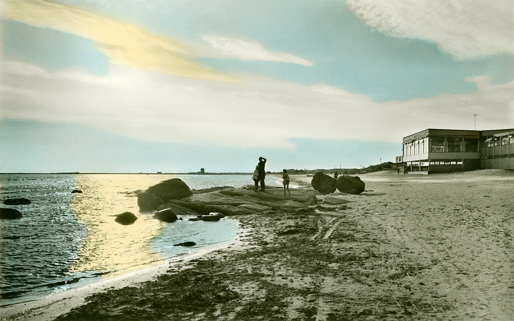 Sun glitter at Strandbaden Hotel at the beach in Falkenberg. Solglitter vid Hotell Strandbaden i Falkenberg. Parish (socken): Falkenberg Province (landskap): Halland Municipality (kommun): Falkenberg County (län): Halland Photograph by: Unknown. Almquist & Cöster Date: 1940-1959 Format: Original postcard, tinted Persistent URL: Read more about the photo database (in english)